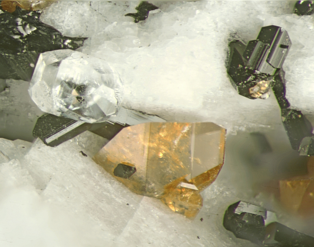 Titanite (Sphen) and Apatite-(CaF) (Fluorapatite) - Locality: Poudrette quarry (Demix quarry; Uni-Mix quarry; Desourdy quarry), Mont Saint-Hilaire, Rouville RCM, Montérégie, Québec, Canada - FOV 3.2 x 2.5 mm - Nice gemmy "sphene" with a very complex water clear apatite xl. The little black prisms are very sharply formed and beautifully terminated. They are very common in the igneous breccia. But after all these years I haven't even figured out if they are amphibole or pyroxene.